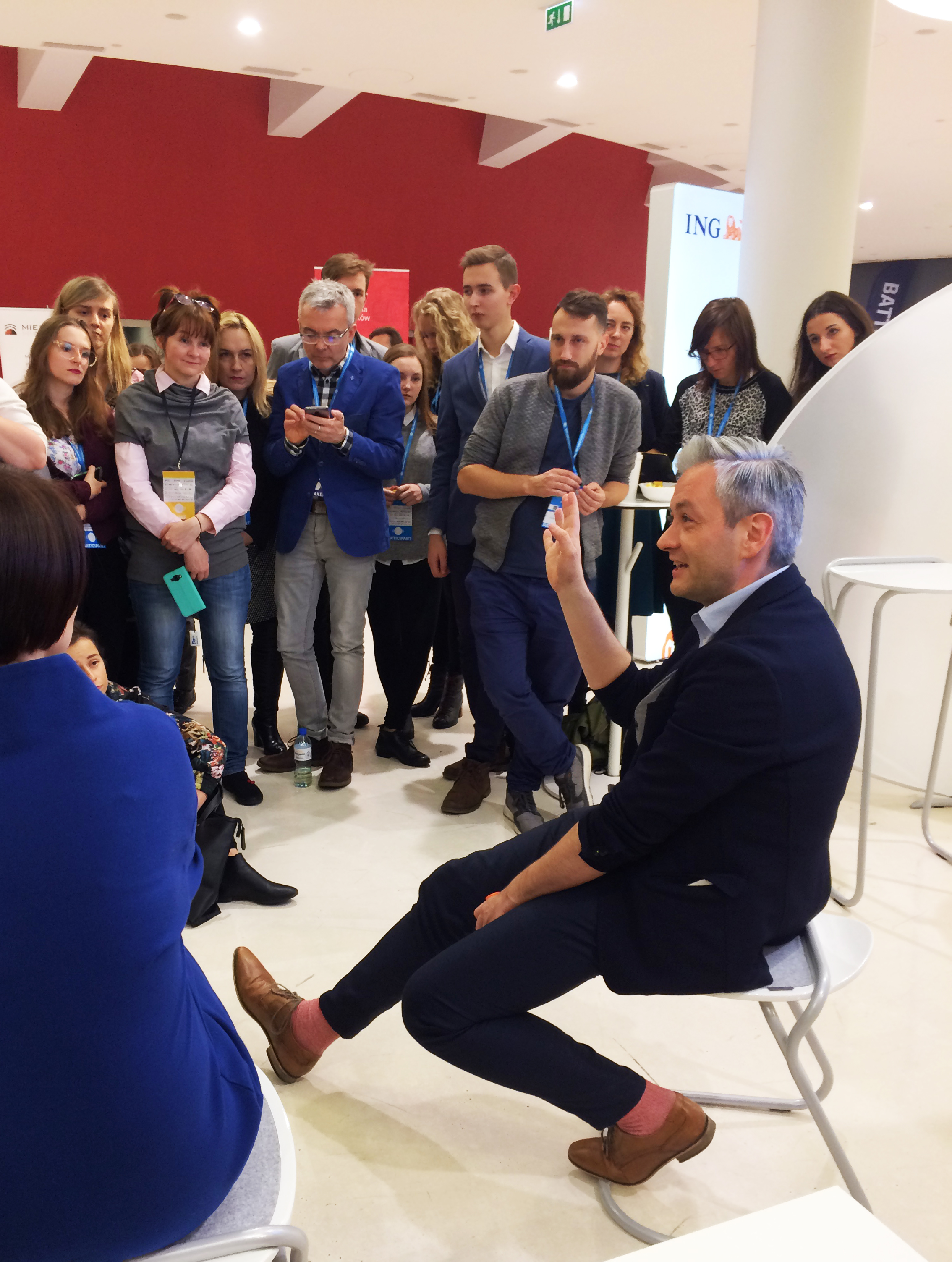 Polish politician Robert Biedron at the ICE Congress Center in Krakow during the Open Eyes Economy Summit.